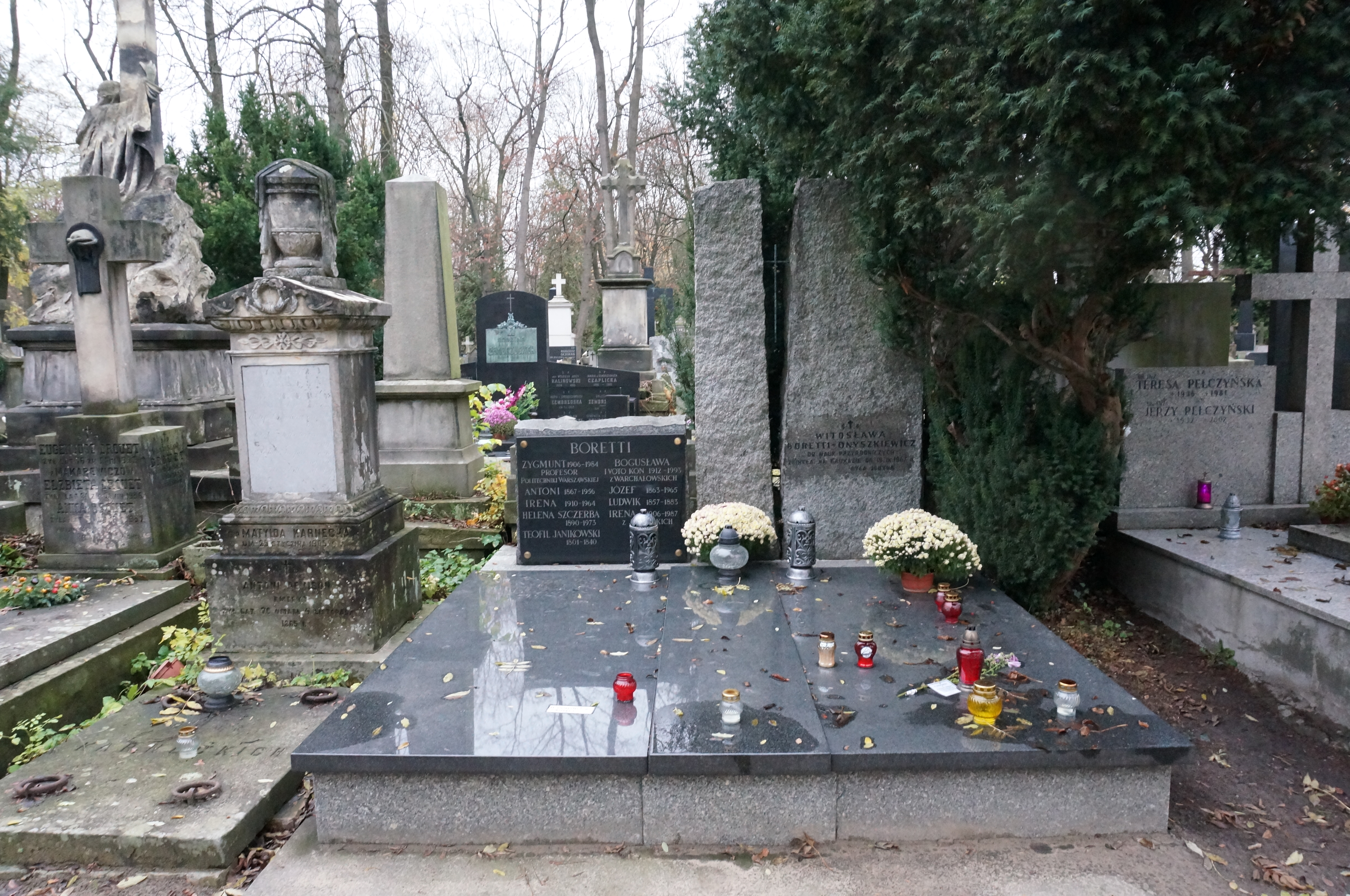 The grave of Teofil Janikowski at the Powązki Cemetery (section 43, row 4, grave 17-19)